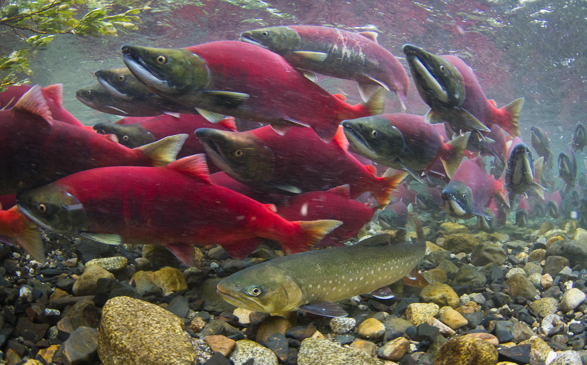 A school of sockeye salmon heading upstream to spawn and a single arctic char stuck near a rock